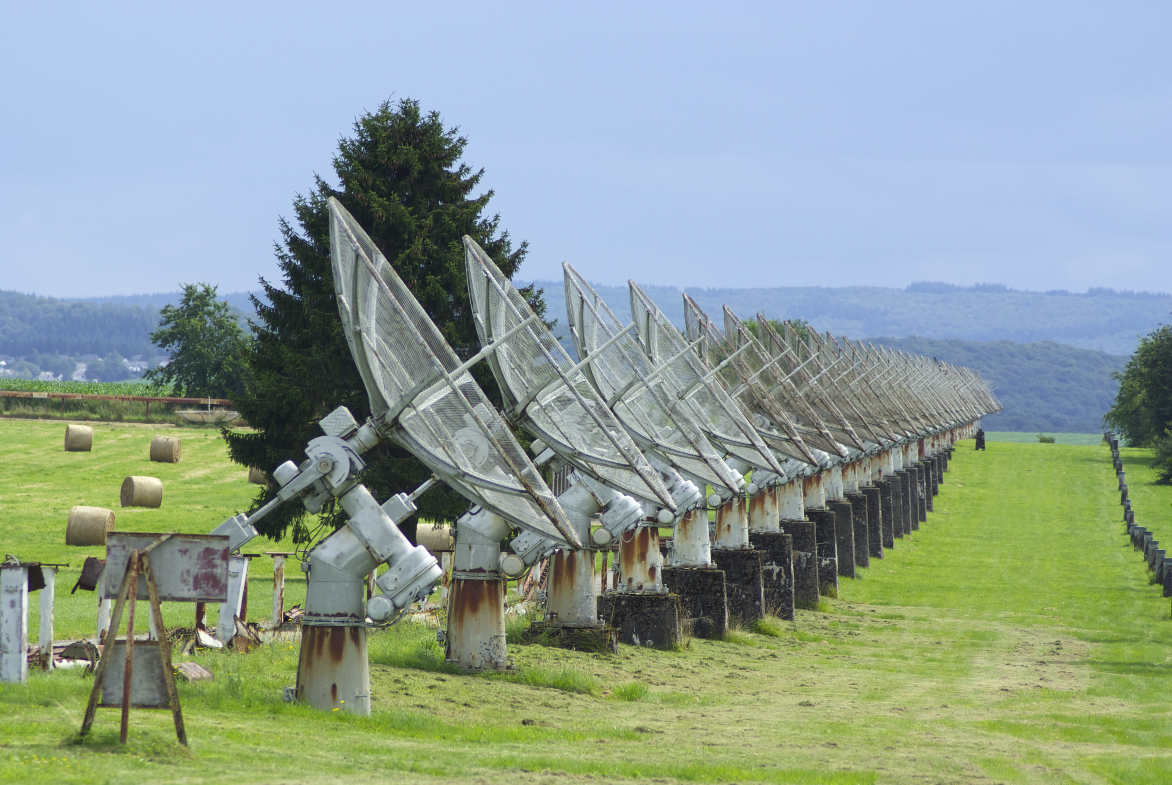 Radio Telescopes in a field near Humain (Belgium)